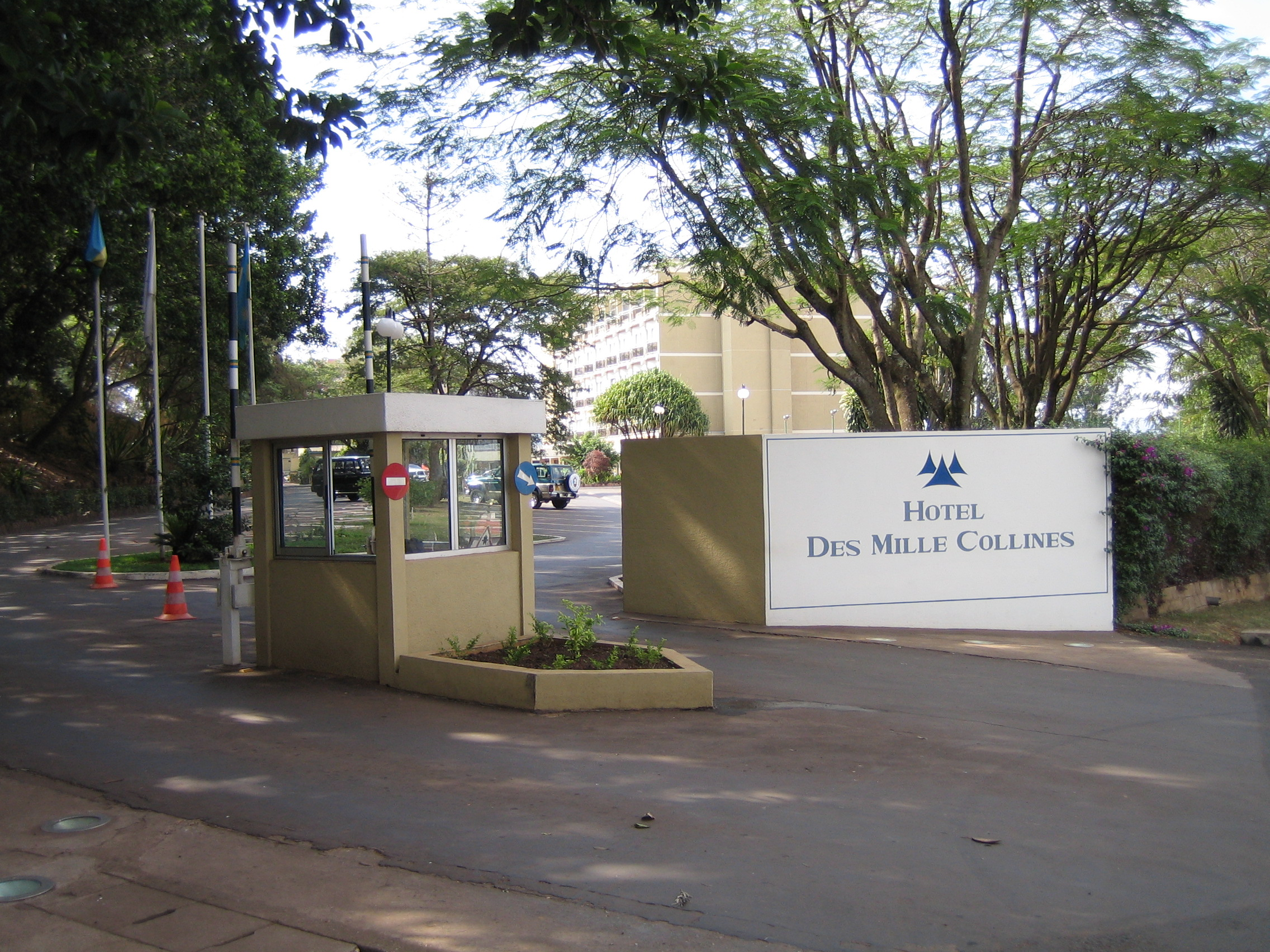 Mille Collines hotel, Kigali, Rwanda. Taken by SteveRwanda